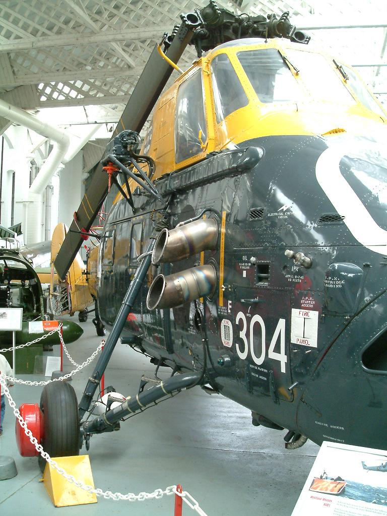 Westland Wessex helicopter at the Imperial War Museum, Duxford, UK